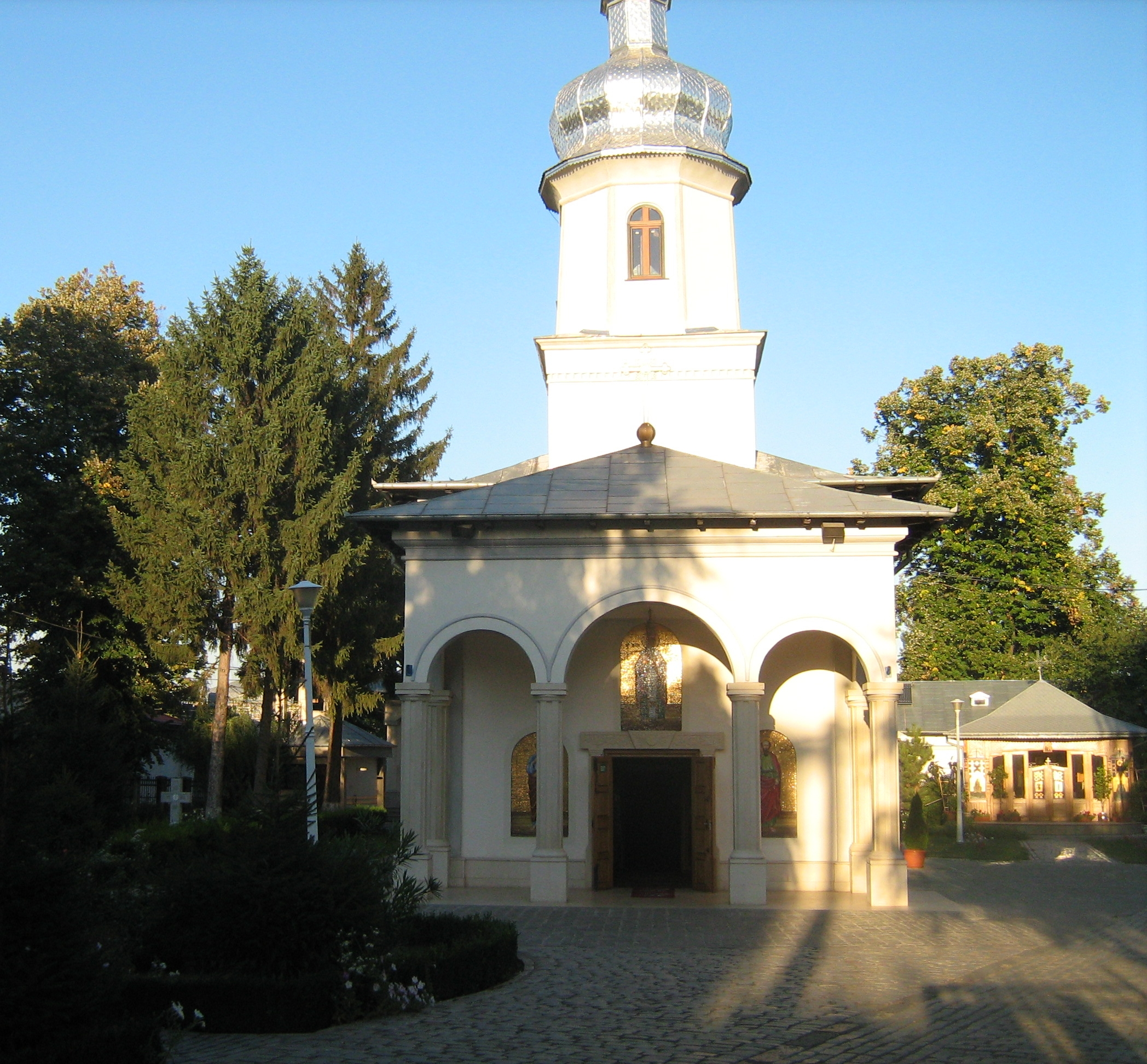 Biserica „Sf. Spiridon”